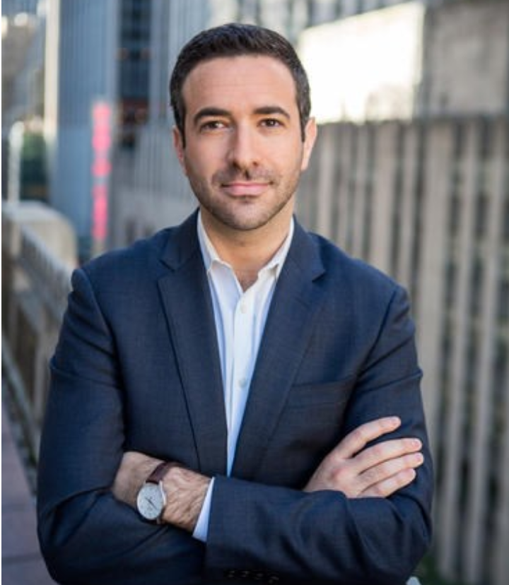 Photo of MSNBC's Ari Melber